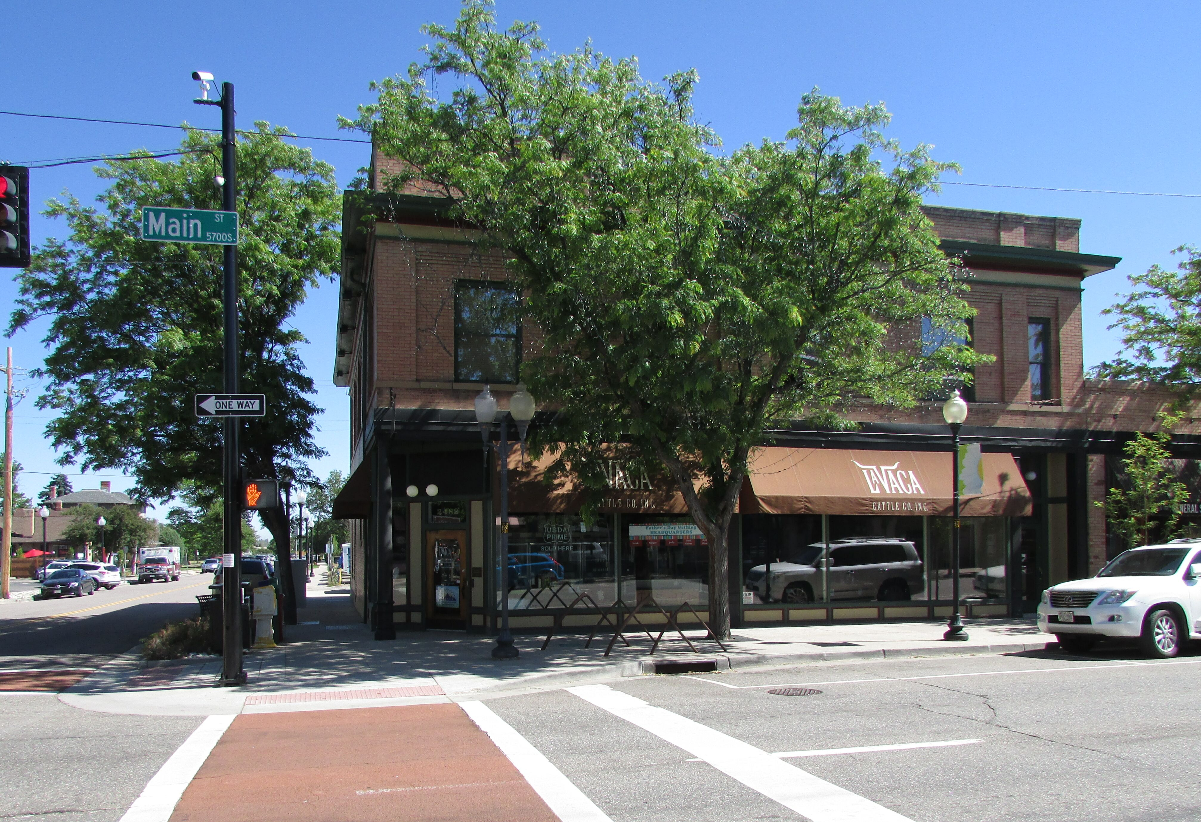 2489 Main (Coors Bldg),Main Street Historic District (Littleton Colorado)